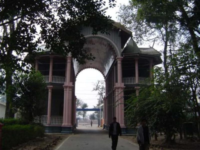 Kangla Gate from inside